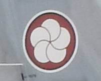 Tail marking of an F-15J at the 2016 Hyakuri Air Show